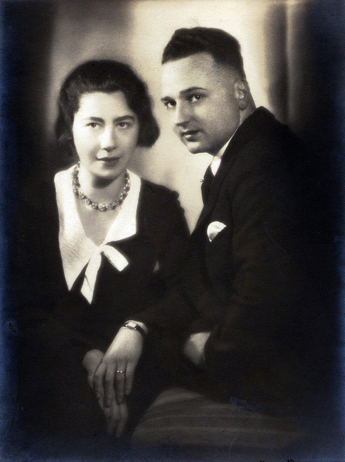 Richard and Hilda Strauss in 1921. From Strauss Archive.